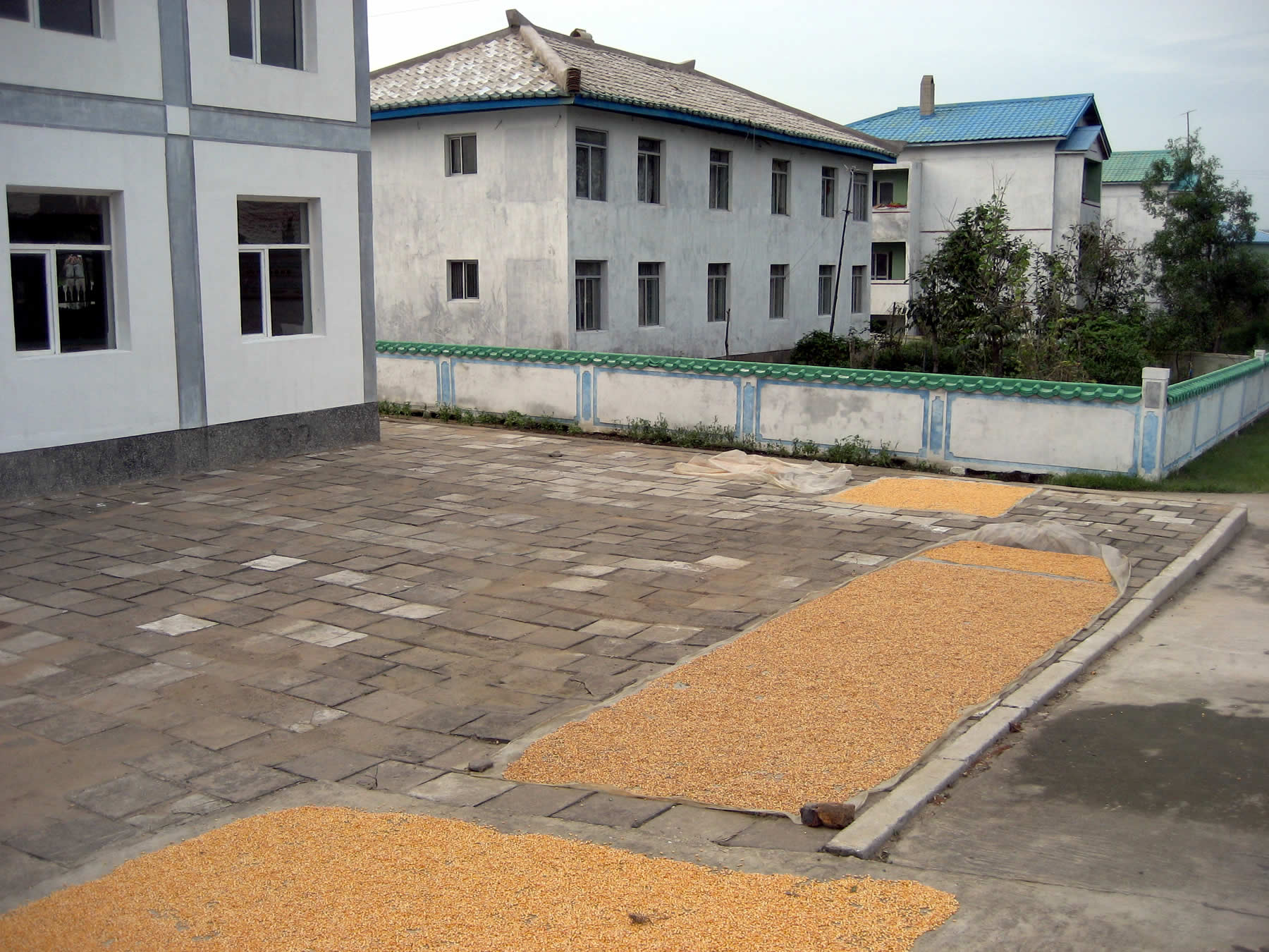 Corn drying at the Chongsan Cooperative Farm toward Nampo.